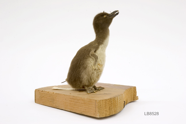 Specimen of a Macaroni penguin chick (Eudyptes chrysolophus) held at Auckland Museum